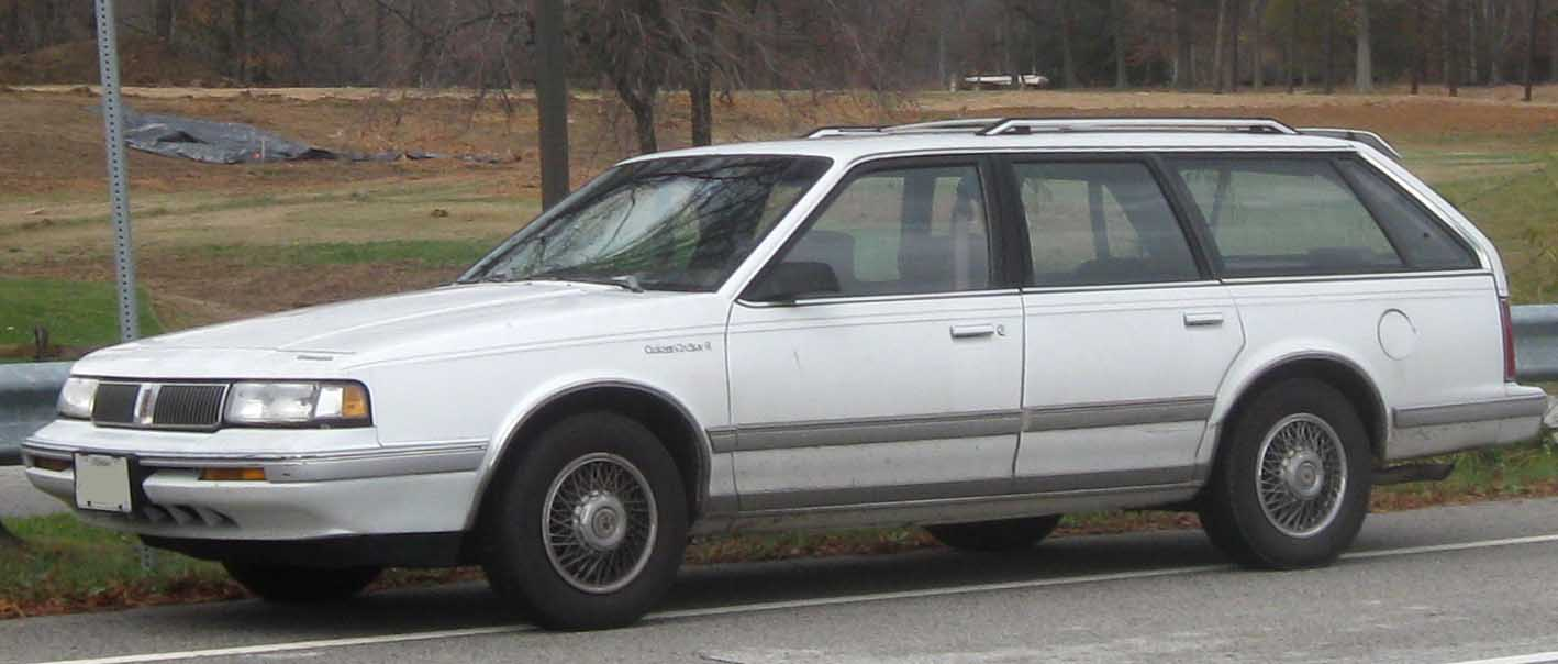 Oldsmobile Cutlass Cruiser photographed in College Park, Maryland, USA.